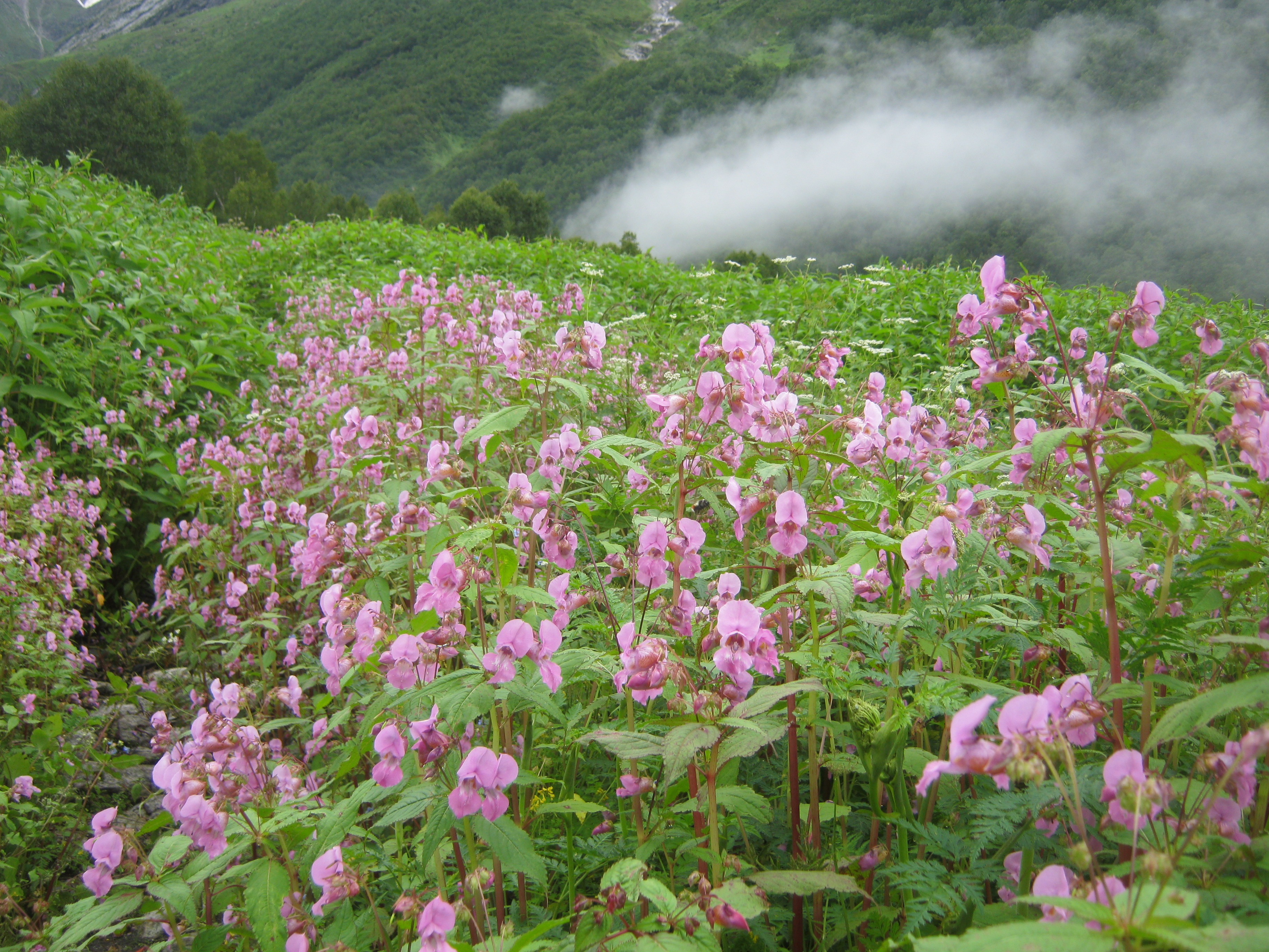 A mesmerizing scene from valley of flowers